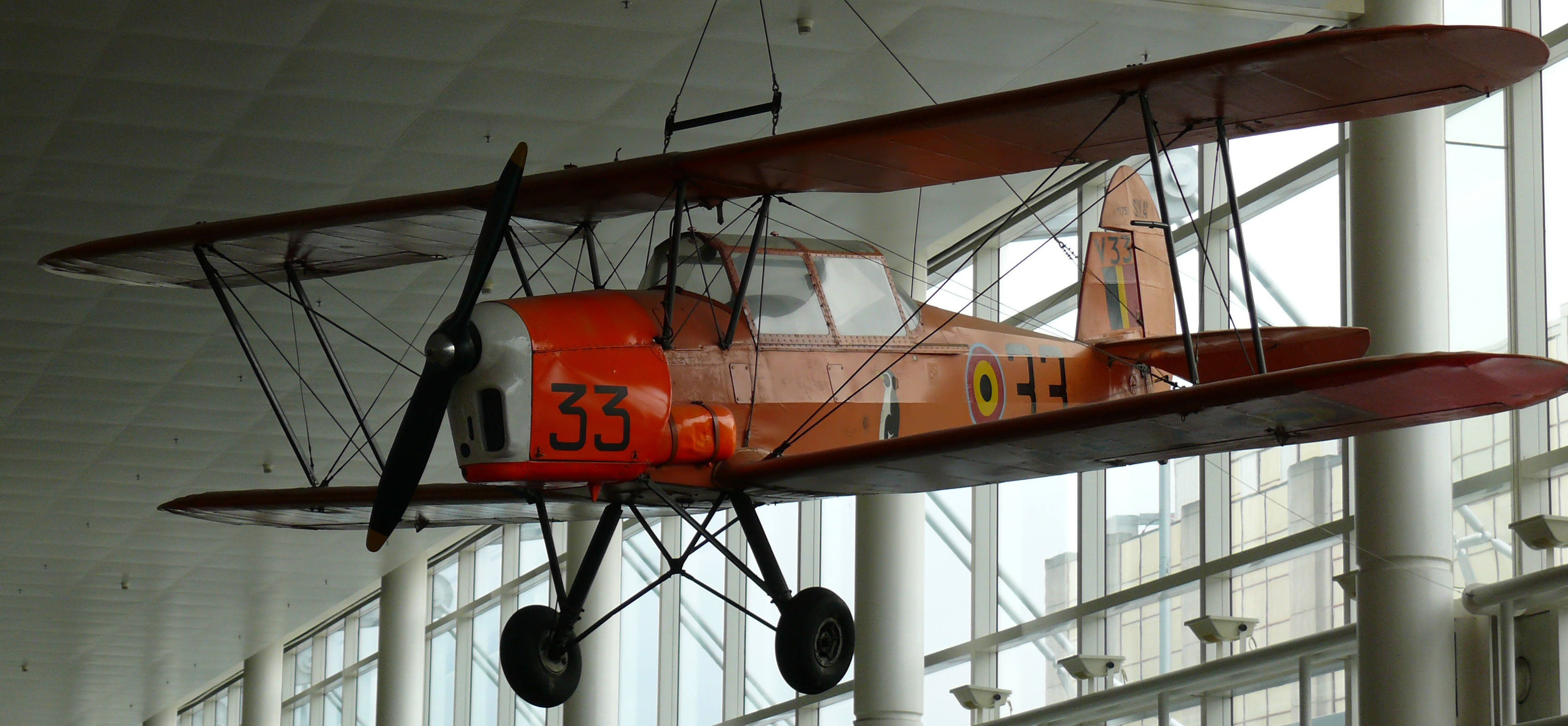 The Stampe en Vertongen SV.4B (built 1952) is Belgian two-seat trainer/tourer biplane. Picture of an SV4 in departure hall of Zaventem Brussels Airport. In 2008 it was transferred to the Royal Military Museum.